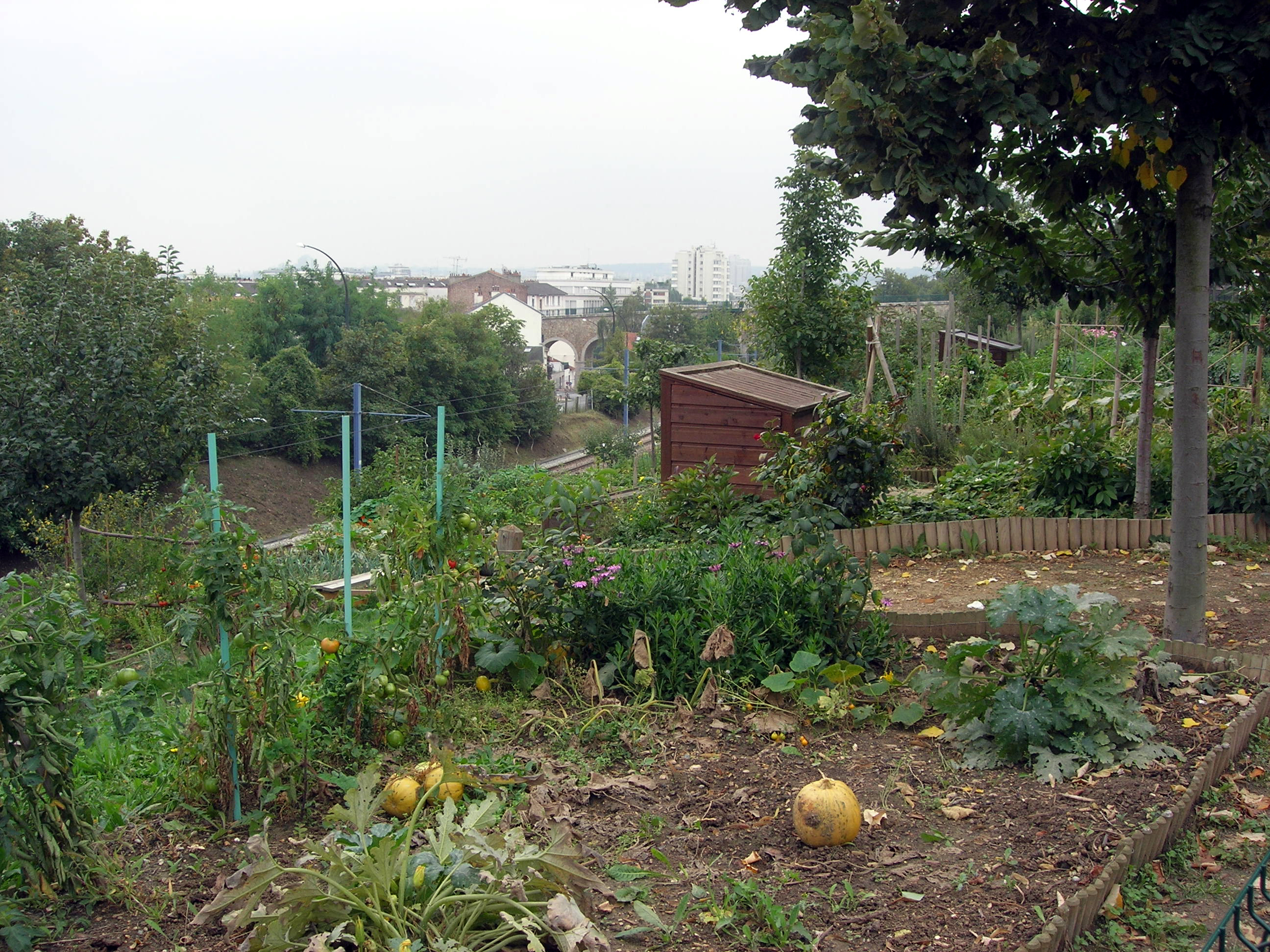 Allotments in Saint-Cloud, France.